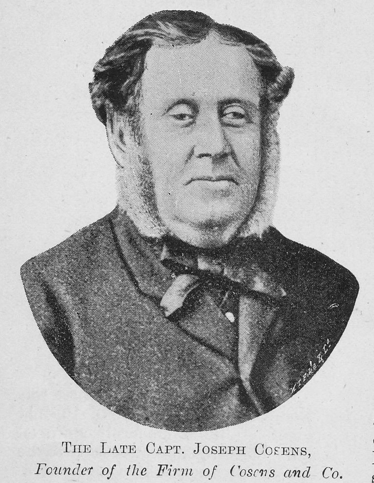 Scan of photograph from "Views & Reviews: Weymouth & Portland, 1895", including caption "THE LATE CAPT. JOSEPH COSENS, Founder of the Firm of Cosens and Co."